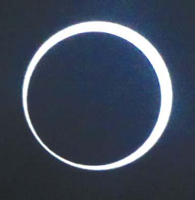 Solar eclipse (2010 january) in Thiruvananthapuram (Trivandrum), India.